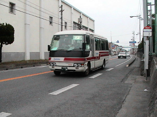 Nishitetsu Bus,Nakatsu-Yukuhashi Line.